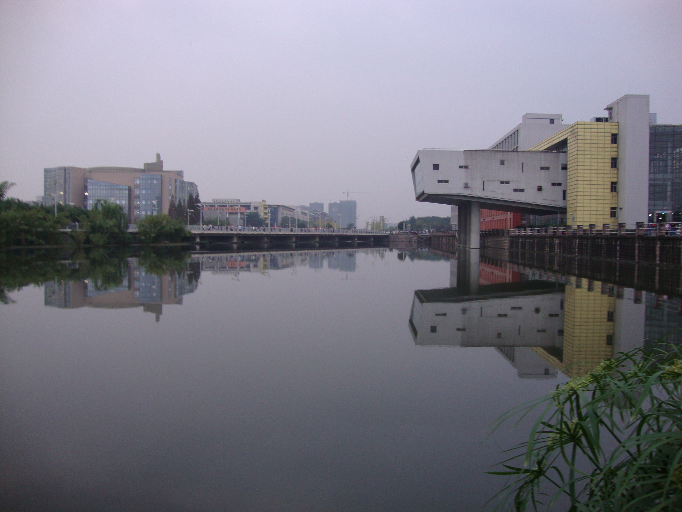 Jiang'an Campus of Sichuan University. In this photo we can see the Ming-yuan Lake and the 1st teaching building, the Jiang'an Library of SCU around it.